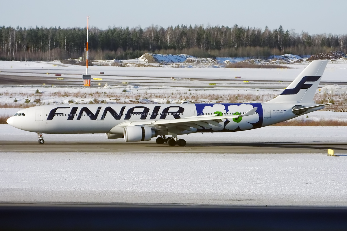 Finnair (Marimekko "Anniversary Unikko" livery), OH-LTO, Airbus A330-302E